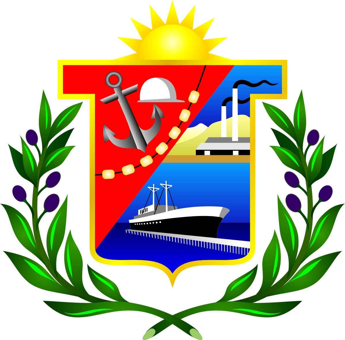 District of Ilo - Ilo Province - Moquegua Region